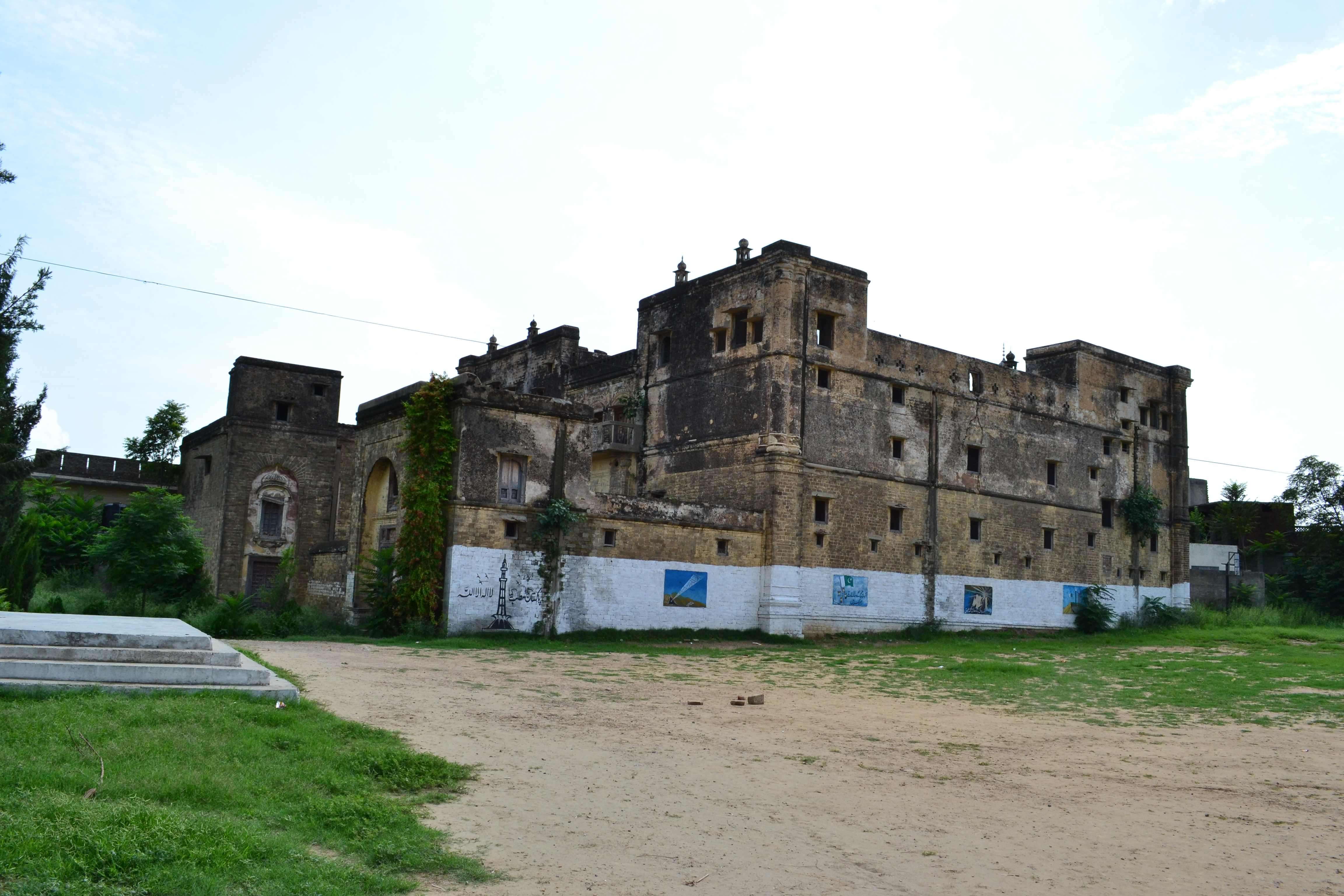 Bedi Mahal Main